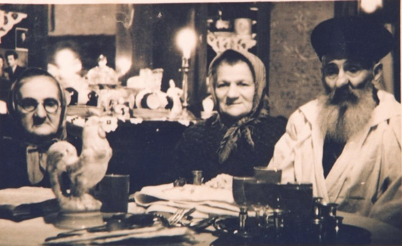 leil haseder, ukraine, 1930